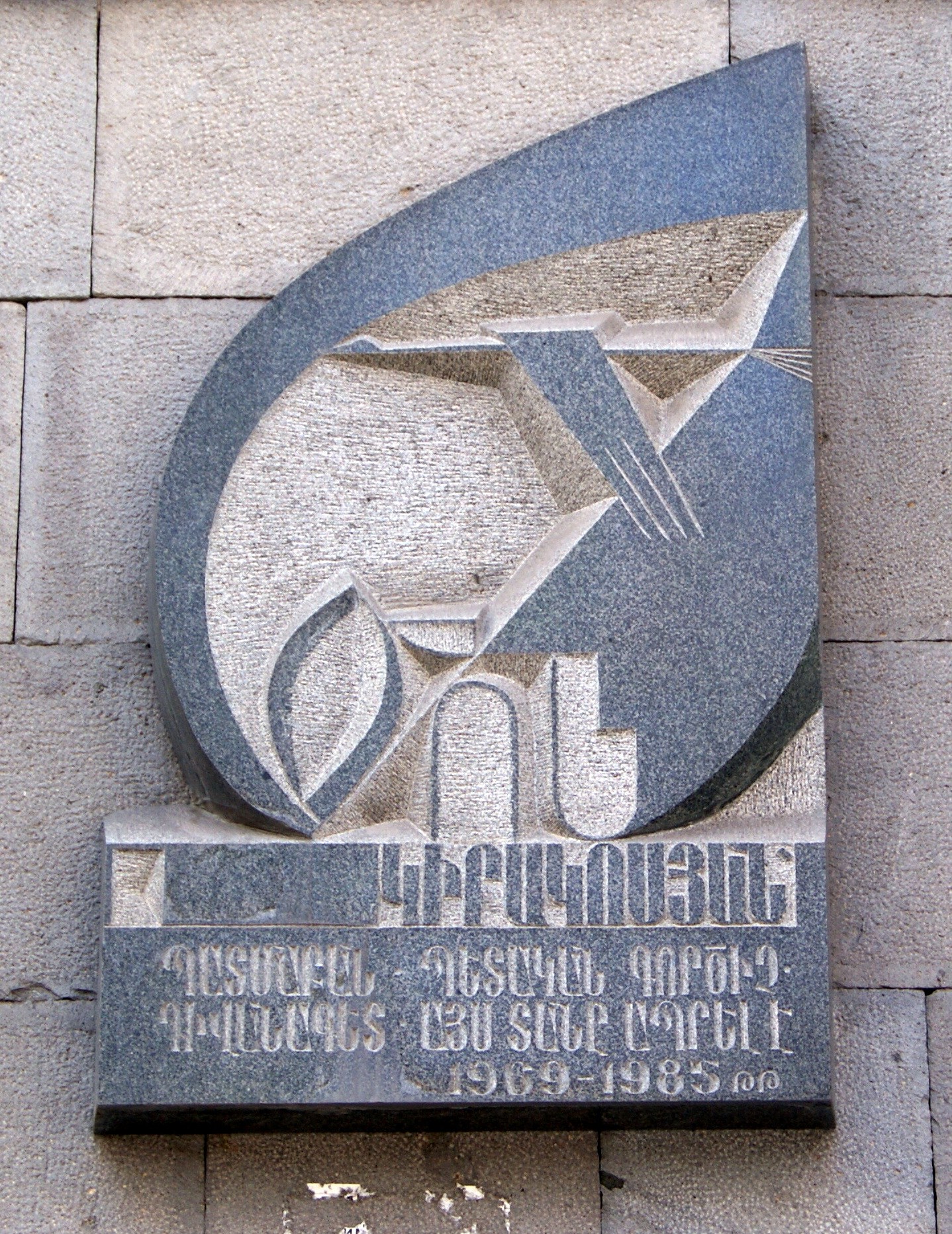 Zoryan Street, Yerevan, John Kirakossian's plaque